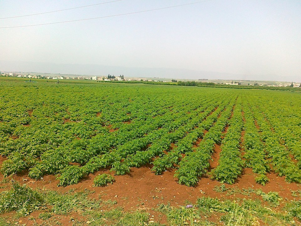 حقول البطاطا في كرناز2013